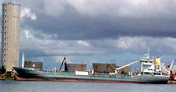 Oil Tanker MT Transpacific. See Inventory Page. IMO Number: 9217321 MMSI Number: 369819000 Callsign: WDD4592 Length: 108 m Beam: 16 m